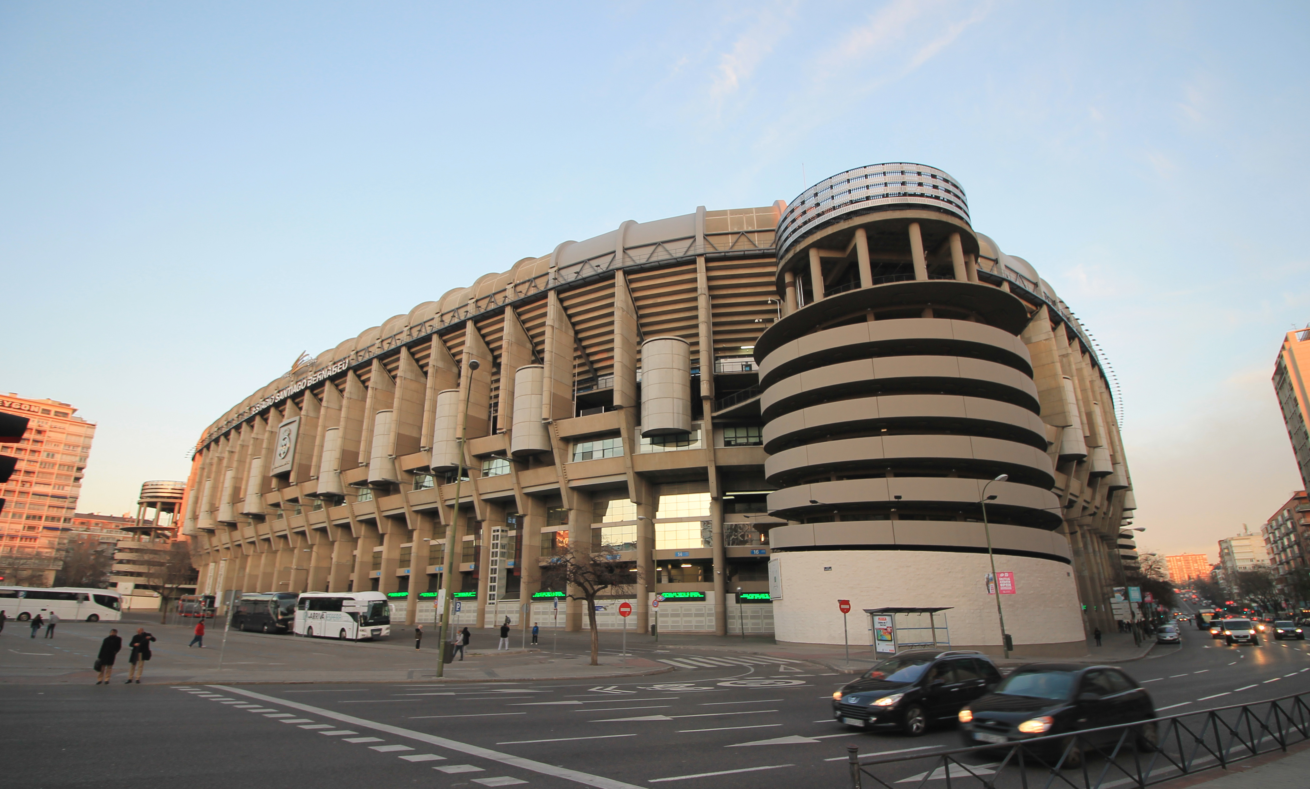 West façade of Santiago Bernabéu Stadium in Madrid (Spain).